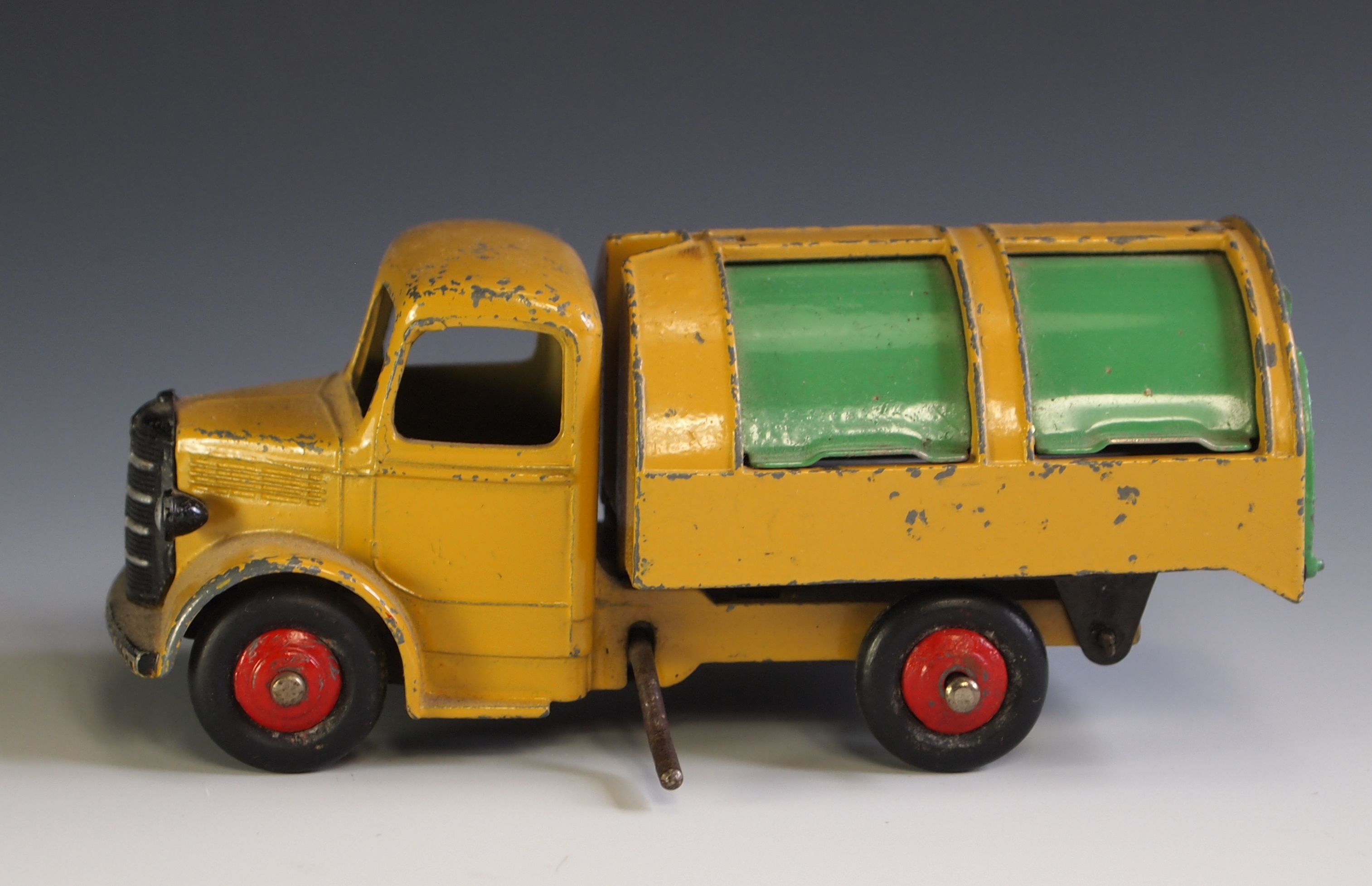 Dinky Lorry